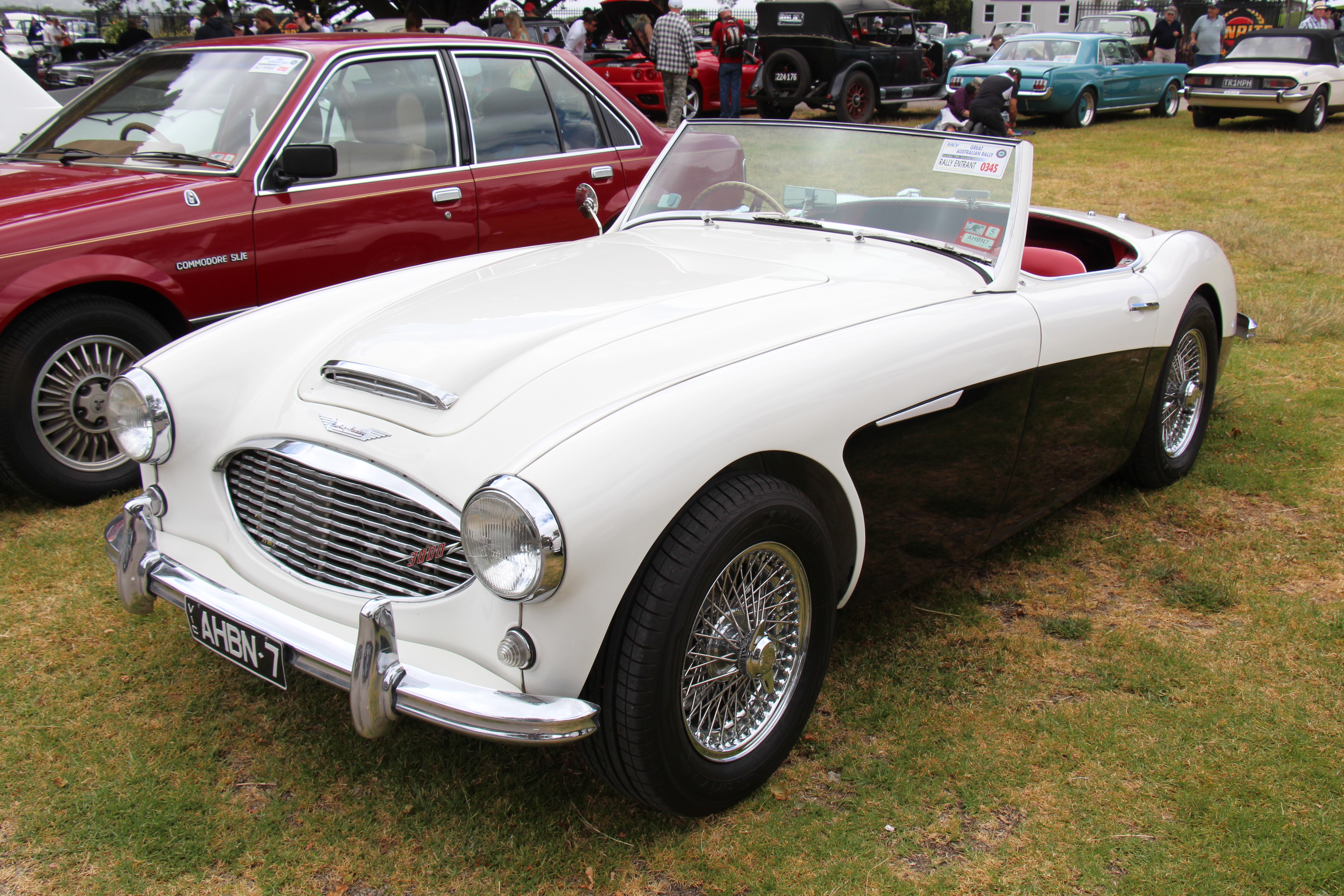 The Healey 3000 was the last of the 3 Big Healeys, the 1st was the 100 (a 4 cyl), then the 100-6 and now the last, the 3000, it was built from 1959-67 and went through a few changes; 1959 MkI; Austin Healey badge above the grille, 3000 in the grille, Engine; 2912cc, twin SUs, 2 seater; BN7 and 4 seater BT7. 1961 MkII; Engine; 2912cc, triple SUs, 2 seater; BN7 and 4 seater; BT7. 1962 MkII; Austin Healey Mk II badge above the grille, Back to 2 carbys, new grille now with vertical bars, wind up windows, only 2+2 BJ7 available. 1963 MkIII; Austin Healey Mk III badge above grille, walnut dash, Engine; 2912cc twin SUs, BJ8 2+2